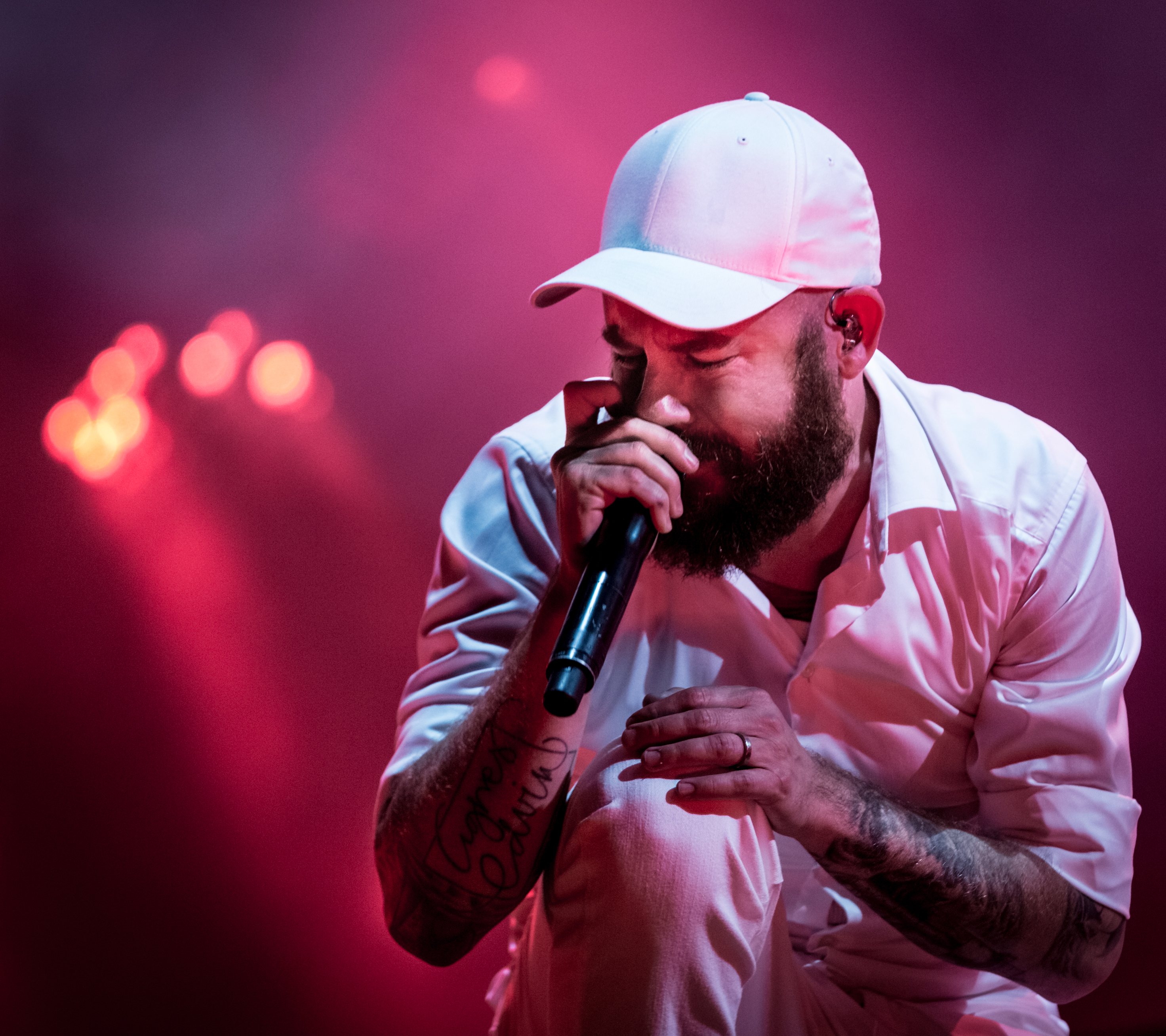 In Flames - Wacken Open Air 2015